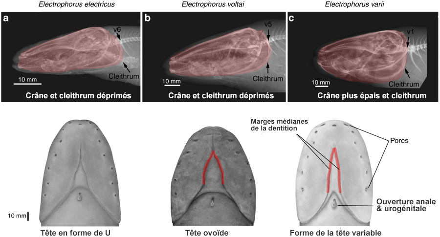 Key morphological features to recognize the three species of Electrophorus. Top, radiographs of lateral view of the anterior portion of body (skull and pectoral girdle highlighted red). The cleithrum lies between the fifth and sixth vertebrae (v) in Electrophorus electricus (a) and E. voltai (b) versus first and second vertebrae in E. varii (c). Bottom, illustrations of ventral view of the head, showing key features listed in Diagnoses. a top: National Museum of Natural History, NMNH 403765, 300 mm TL, Cuyuni River, Guyana; bottom: NMNH 225576, 1000 mm TL, Corantijn River, Suriname. b top: Instituto Nacional de Pesquisas de Amazônia, INPA 39009, 450 mm TL, Teles Pires River, Brazil; bottom: Academy of Natural Sciences of Drexel University, ANSP 197583 (t3539), 1280 mm TL, Xingu River, Brazil. c top: NMNH 306677, 450 mm TL, Lago Janauari, Amazon River, Brazil; bottom: NMNH 196634, 1220 mm TL, Amazon River, Brazil. Distinguished by head narrow, Fig. 2a (versus wide, Fig. 2b, in E. voltai; distance between medial margins of contralateral dentaries at transverse through last two ventral pores 2–3 times shorter in E. varii than E. voltai, Fig. 2a, b), skull deep, cleithrum lies between vertebrae 1 and 2, Fig. 2b (versus skull depressed, cleithrum lies between vertebrae 5 and 6, in both E. electricus and E. voltai Fig. 2a, c). From C. David de Santana et al 2019 (Revue Nature)